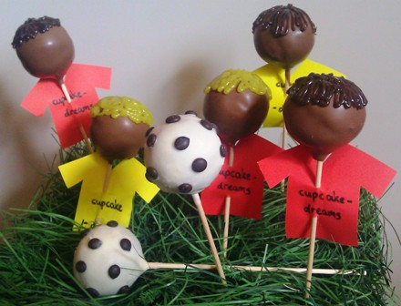 cake pops with football decoration.